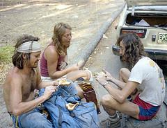 Derek Hersey (right), Barry Heidi and friend making PBJ sandwiches, Yosemite Valley.